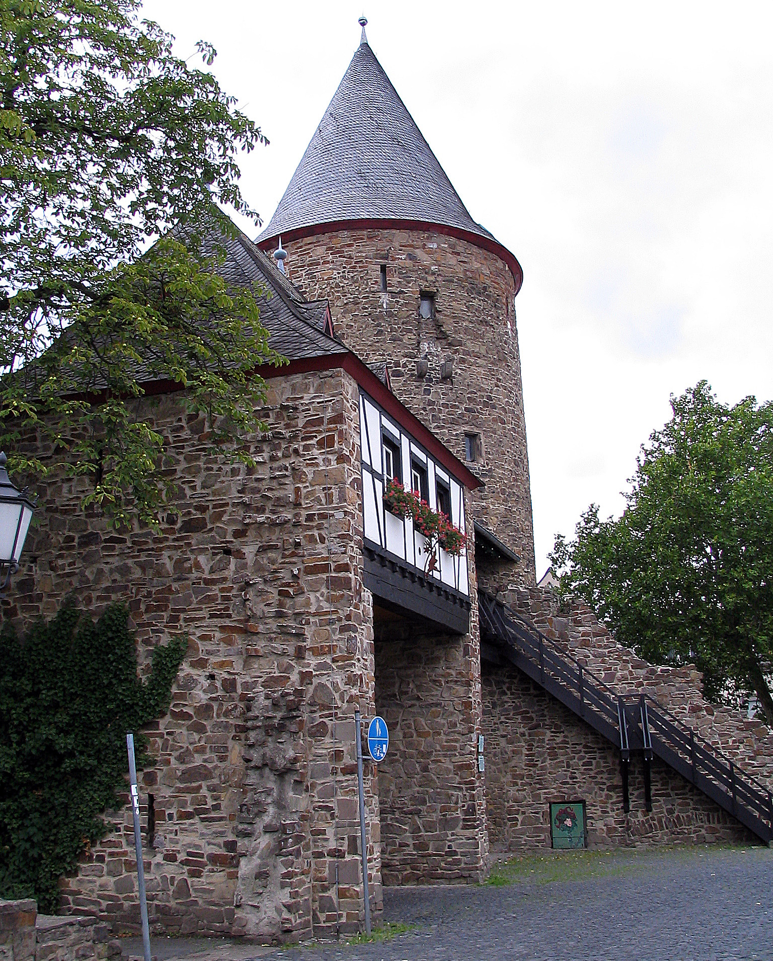 Wasemer Turm, Rheinbach